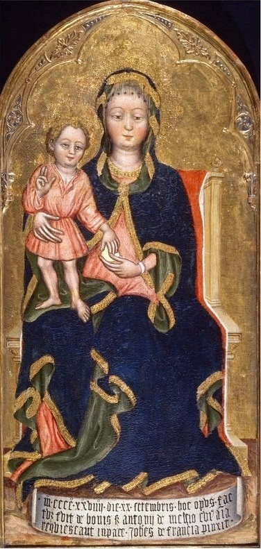 Giovanni di Francia, originally Jean Charlier, Madonna and Child, 1429, 104x51cm, Museo Nazionale di Palazzo Venezia, Rome.